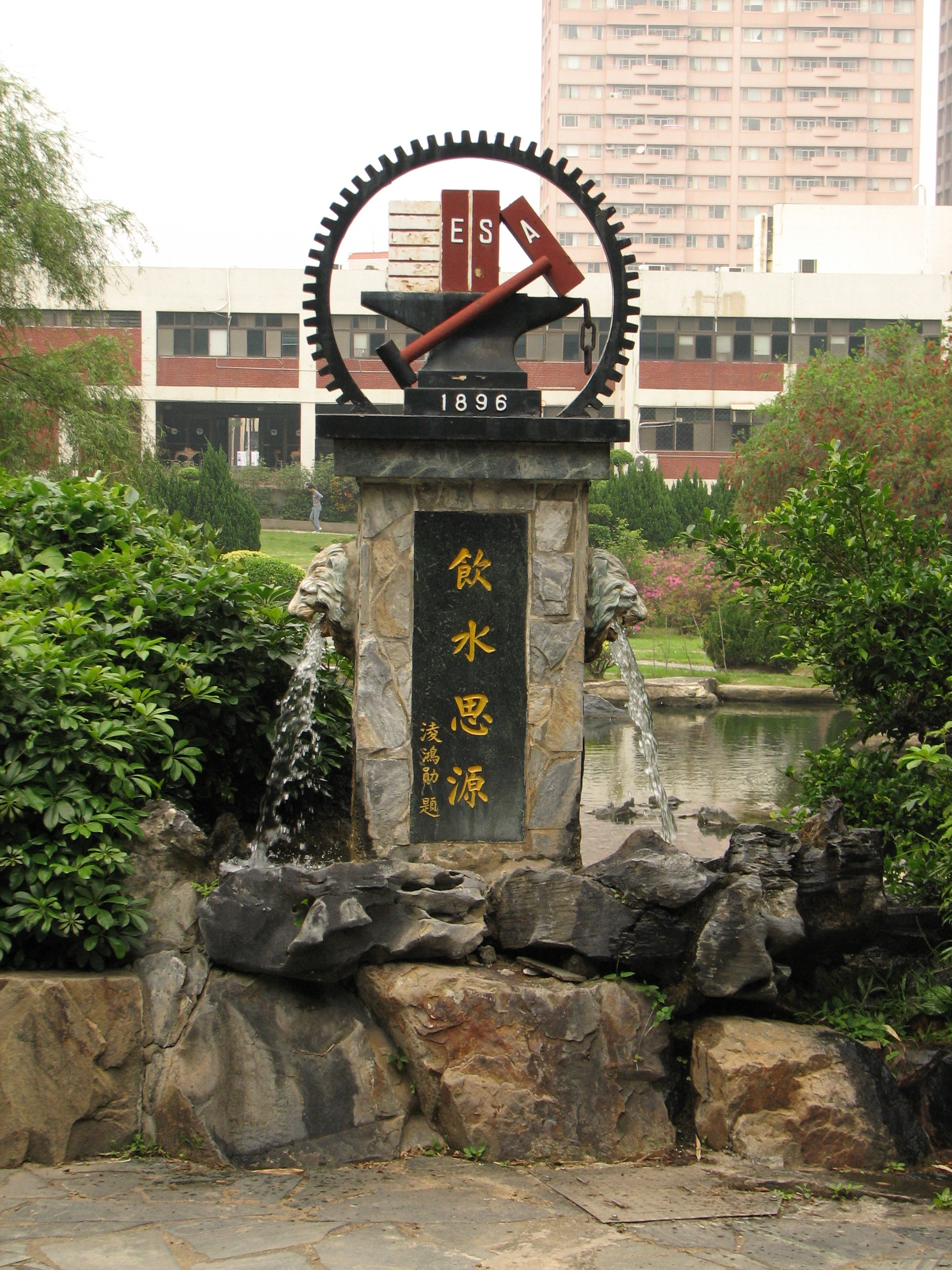 Yin Shui Si Yuan (飲水思源) in National Chiao Tung Univ, HsinChu, Taiwan